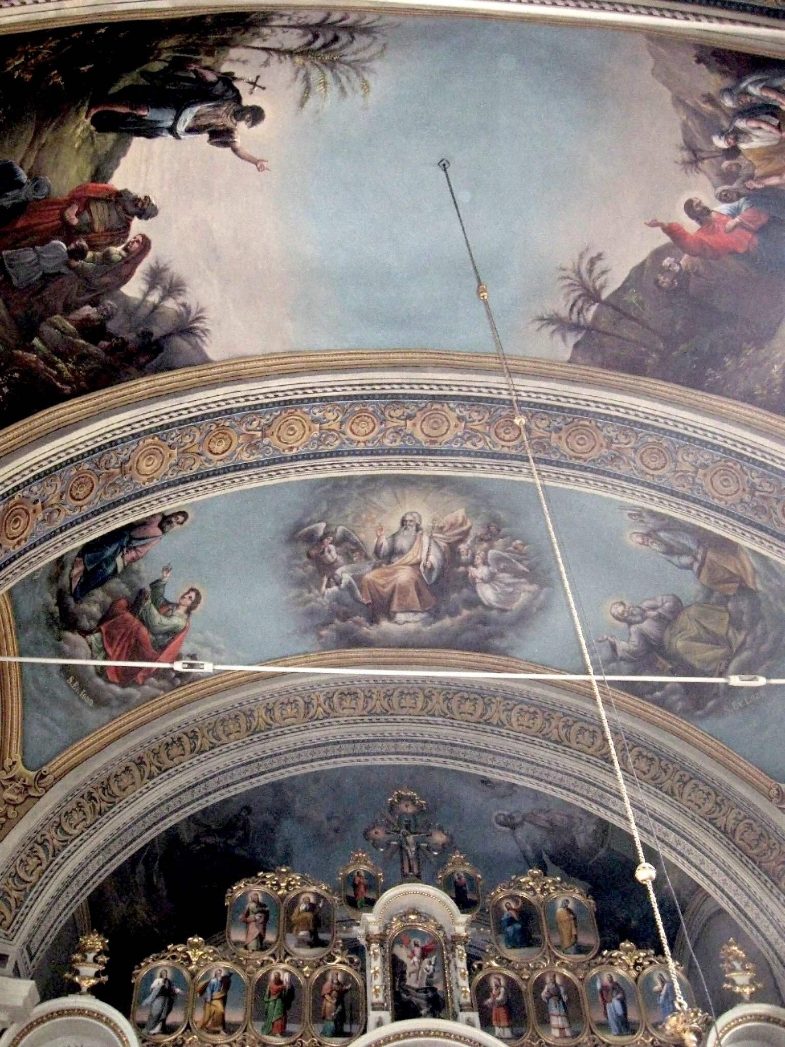 Ceiling of Orthodox Church St. Nicholas of Nădlac, Romania